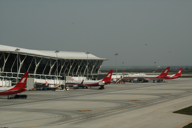 Shanghai Airlines B737-800s in the new "Coca-cola" livery and a B757-200 lined up at Pudong Airport Terminal 2. This photo was taken on the international side of the terminal where all the action seemed to be.